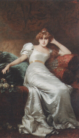 An elegant beauty